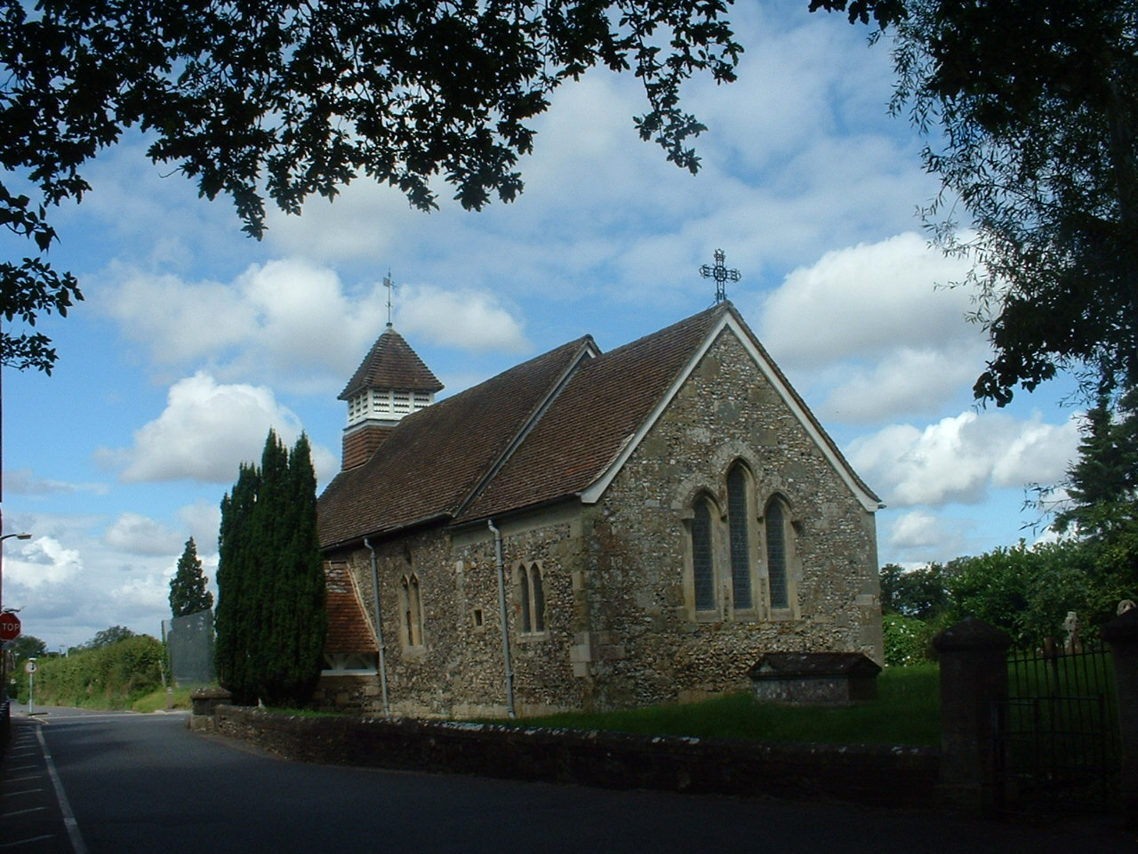 The church of 17th century poet-priest George Herbert George Herbert